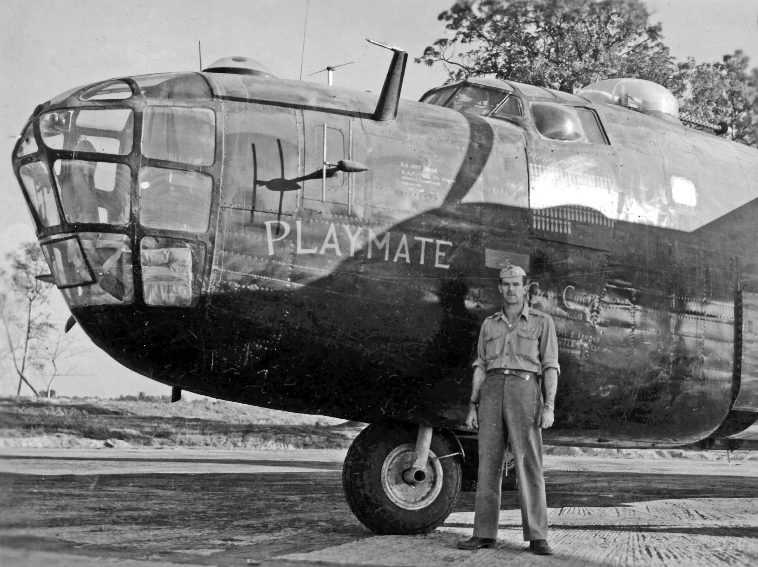 Sgt. William T. Alexander, flight engineer, with B-24D #42-63980 "Playmate" of the 858th BS, 801st/492nd BG “Carpetbaggers" in 1944. Yagi antenna for Rebecca transponder on side of aircraft nose.